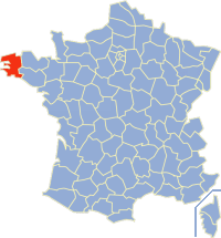 Map of France with highlighted #29 department.